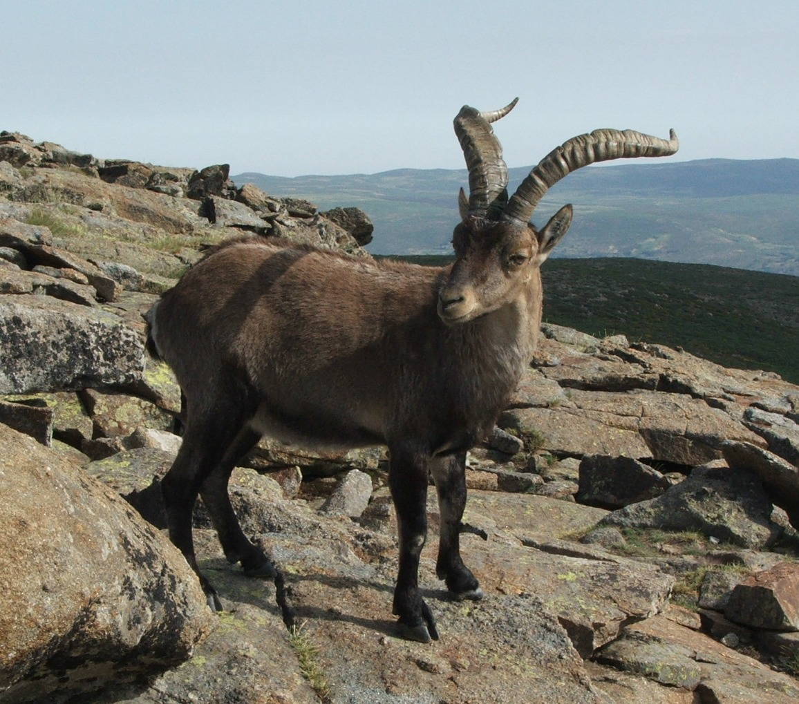 Male of Capra pyrenaica victoriae in Sierra de Gredos, Spain.